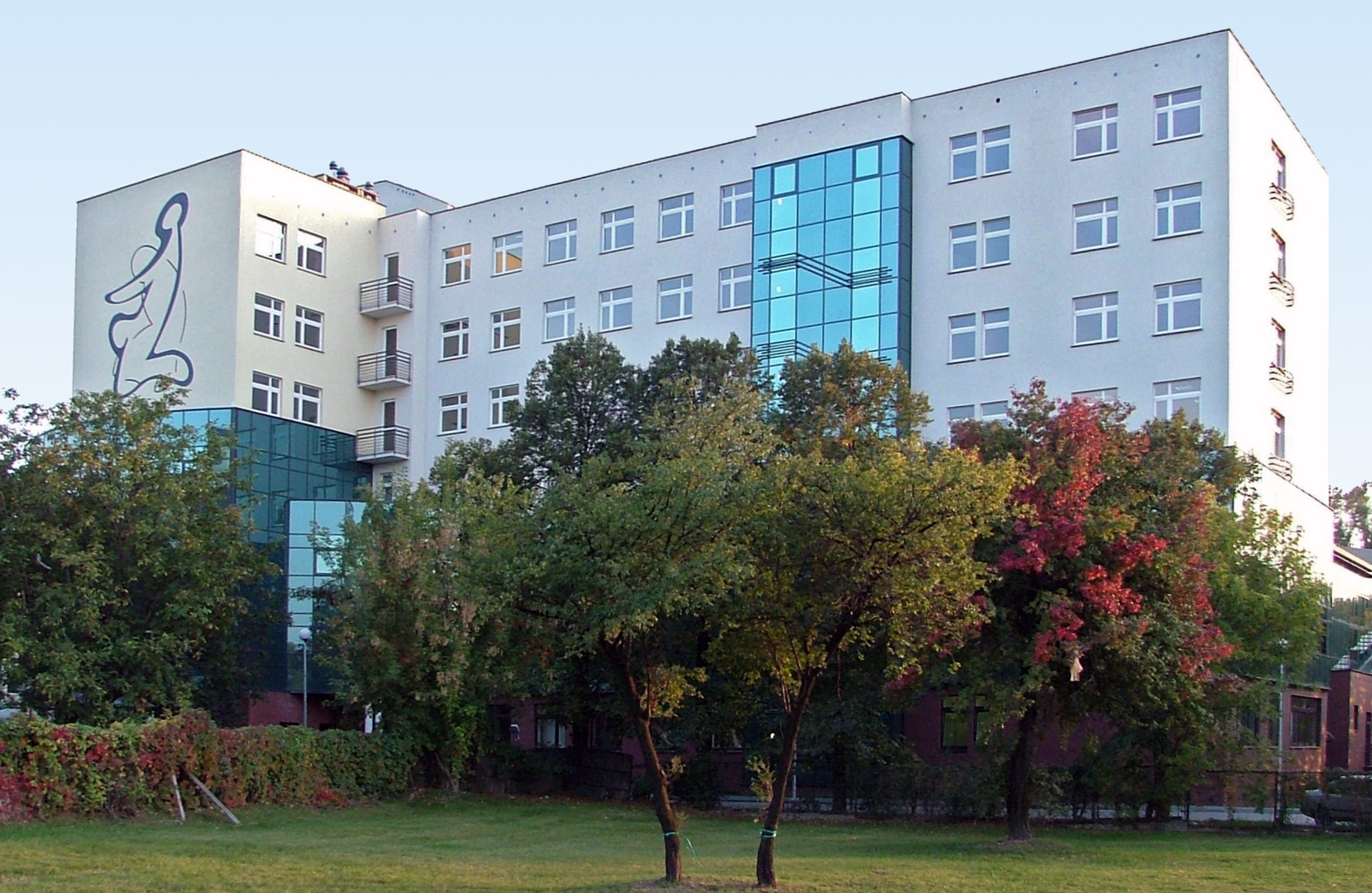 Poland, Warsaw, Academy of Special Education